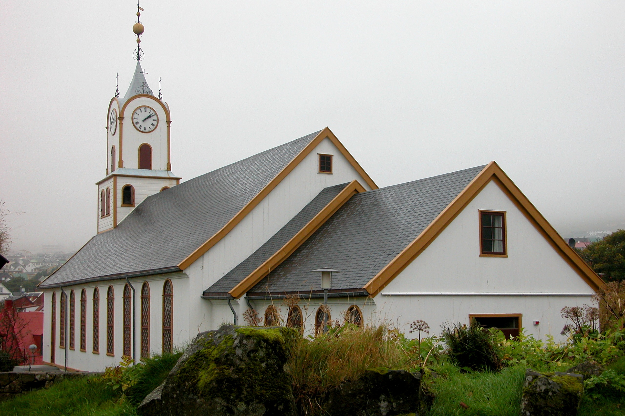 The Cathedral of Tórshavn, Faroe Islands